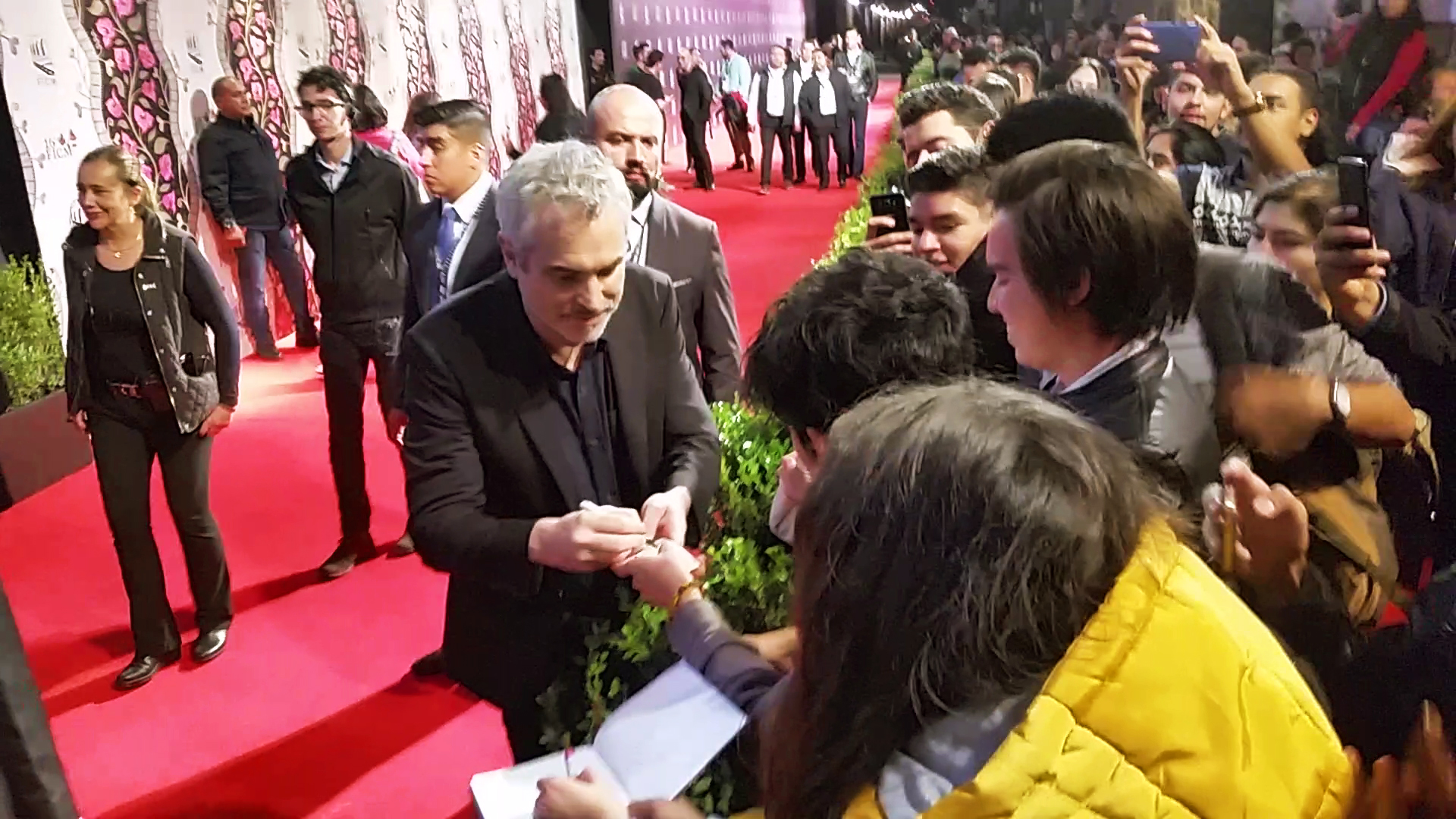 Alfonso Cuarón signing autographs in 17th Morelia International Film Festival after presenting Roma, October 24th, 2018